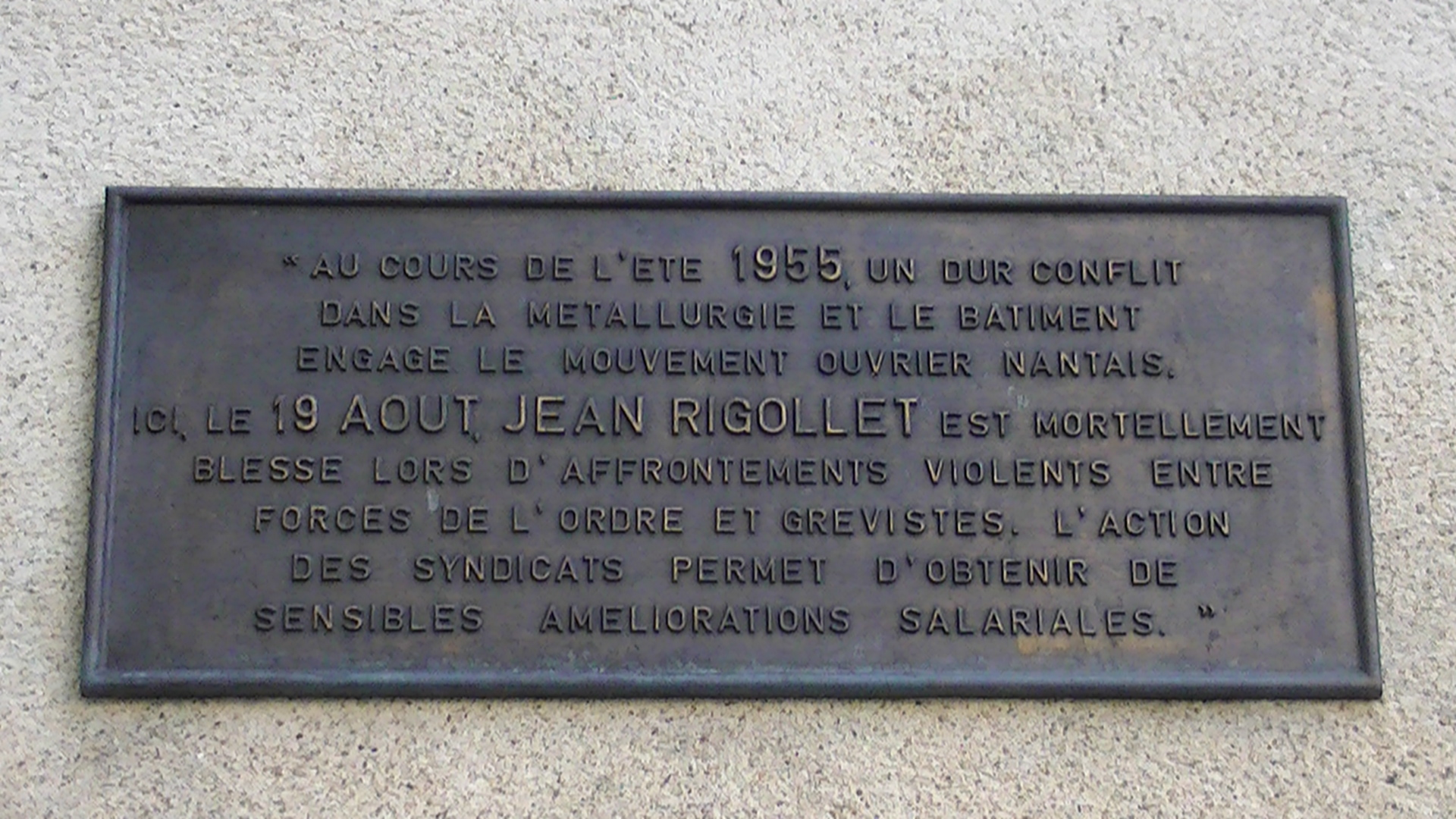 Plaque commemorating the death of Jean Rigollet during a labour strike, 19 August 1955, in Nantes. The plaque is located at the intersection of Allée de l'Erdre and Rue Armand Brossard.